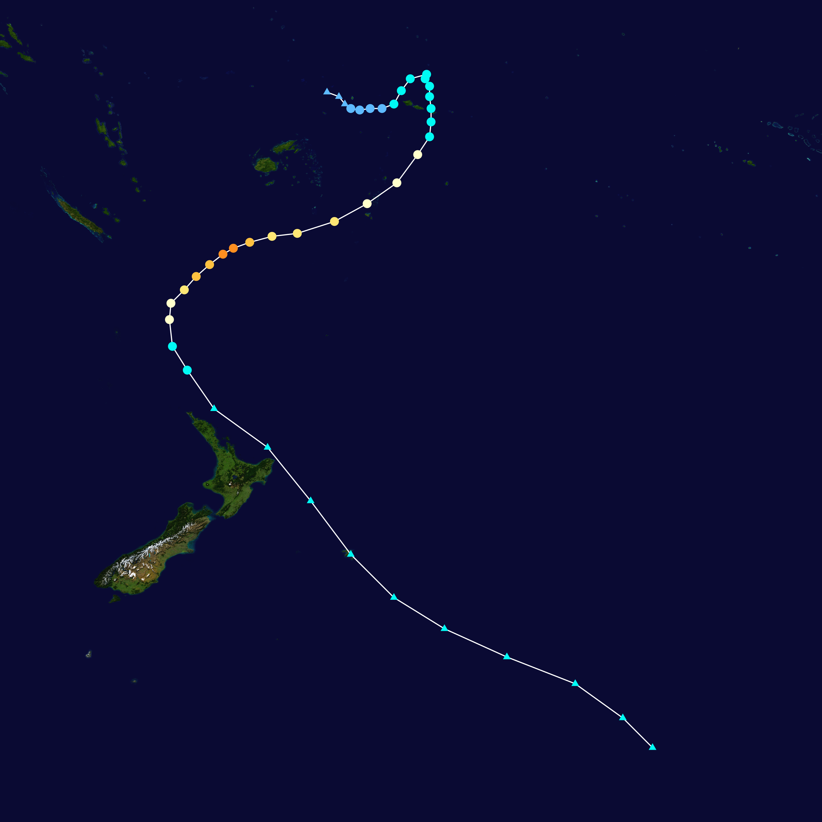 Track map of Severe Tropical Cyclone Wilma of the 2010-11 South Pacific cyclone season. The points show the location of the storm at 6-hour intervals. The colour represents the storm's maximum sustained wind speeds as classified in the Saffir–Simpson scale (see below), and the shape of the data points represent the nature of the storm, according to the legend below. Saffir–Simpson scale Tropical depression≤38 mph≤62 km/h Category 3111–129 mph178–208 km/h Tropical storm39–73 mph63–118 km/h Category 4130–156 mph209–251 km/h Category 174–95 mph119–153 km/h Category 5≥157 mph≥252 km/h Category 296–110 mph154–177 km/h Unknown Storm type Tropical cyclone Subtropical cyclone Extratropical cyclone / Remnant low / Tropical disturbance / Monsoon depression